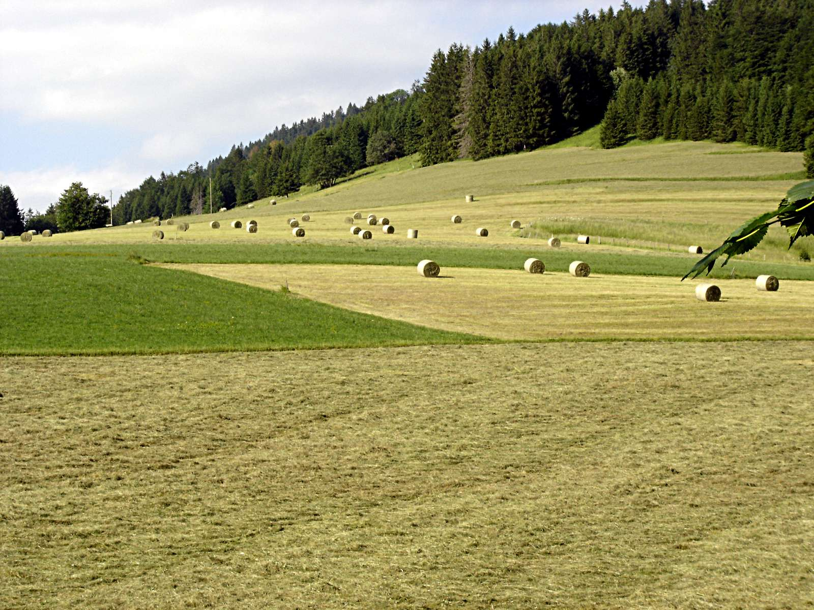 Landscape at in the high pass by Sainte Croix in Vaud, Switzerland